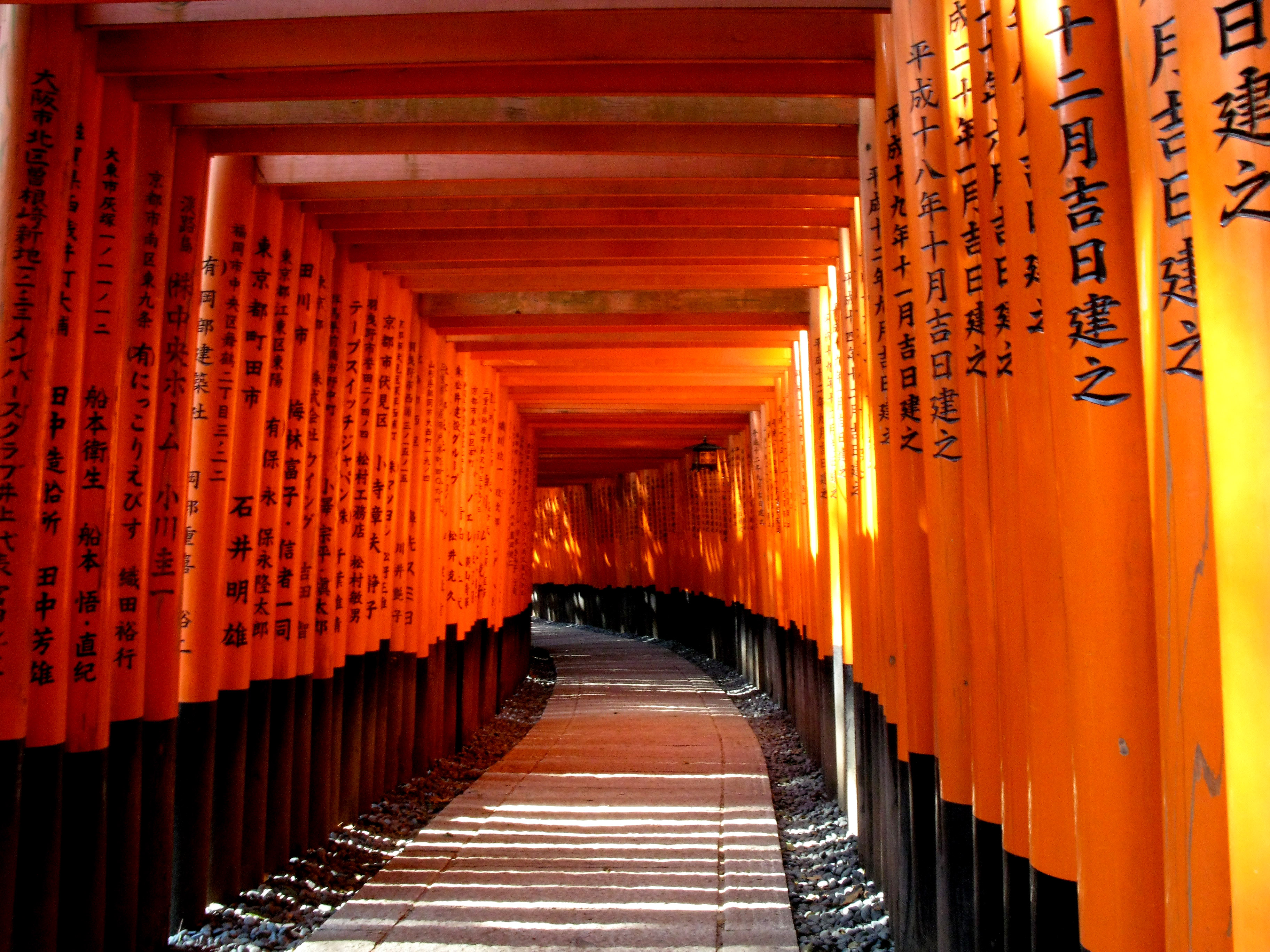 Fushimi Inari-taisha is a Japanese famous temple for its Thousand Torii corridor.